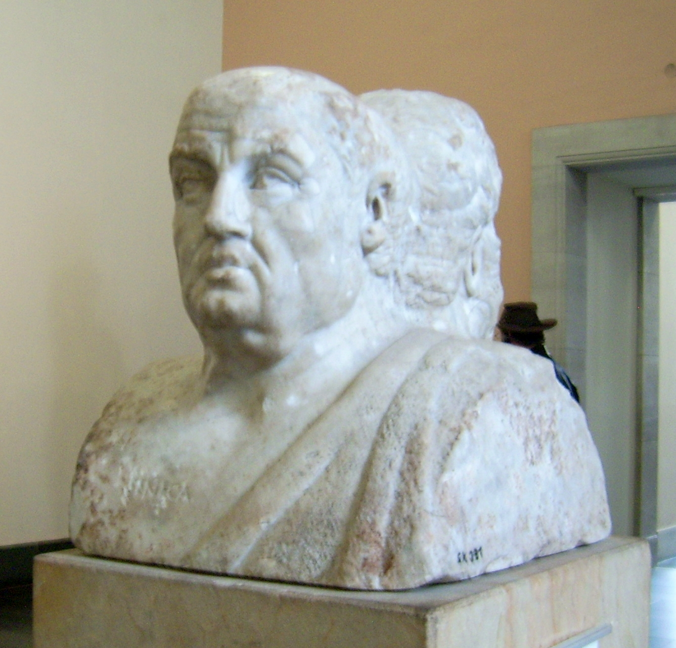 Berlin, Pergamonmuseum. An Ancient Roman double-face herm of philosophers Lucius Annaeus Seneca and Socrates.